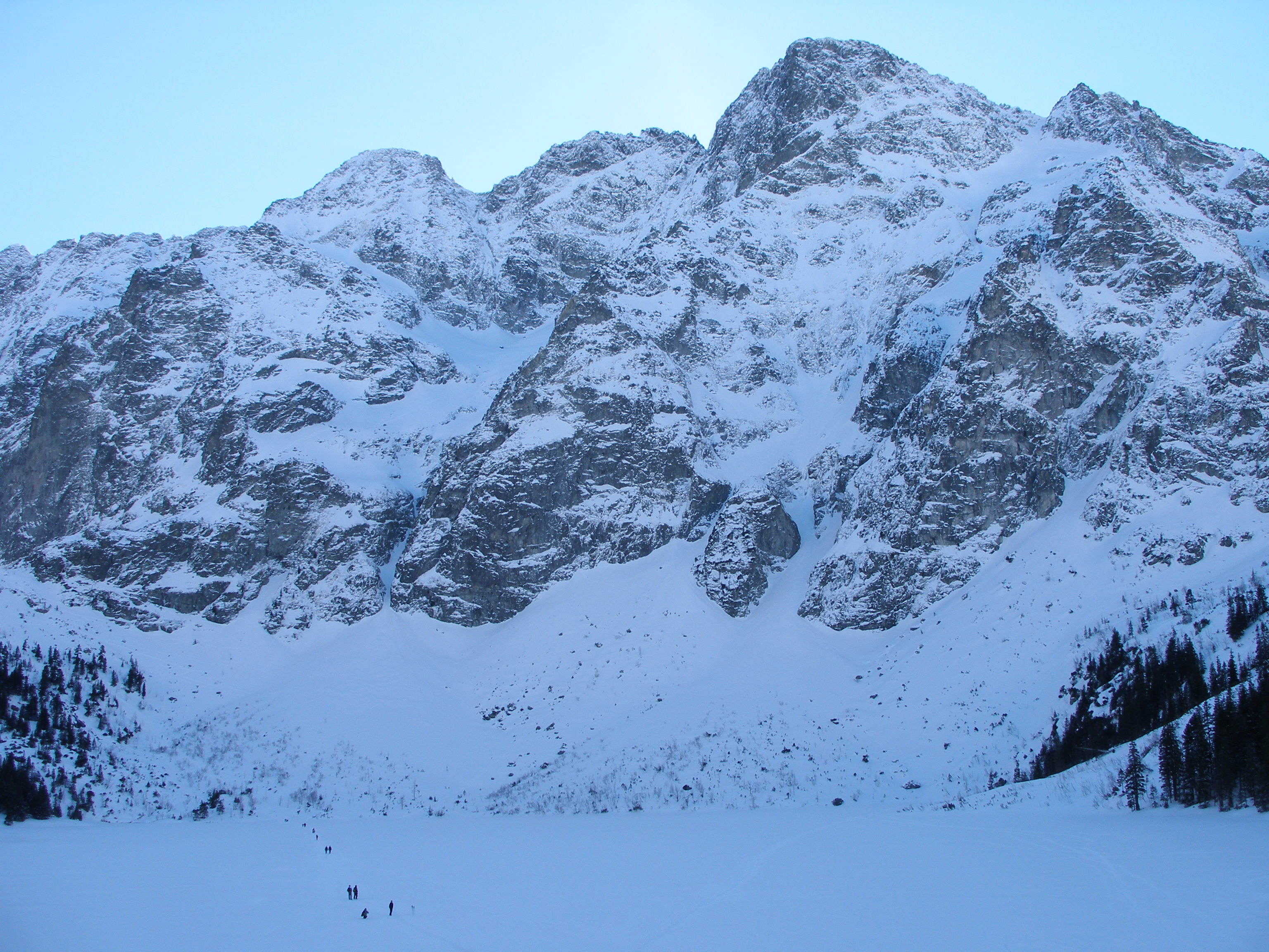 Morskie Oko and Mięguszowieckie Szczyty seen from the north in winter, Poland.